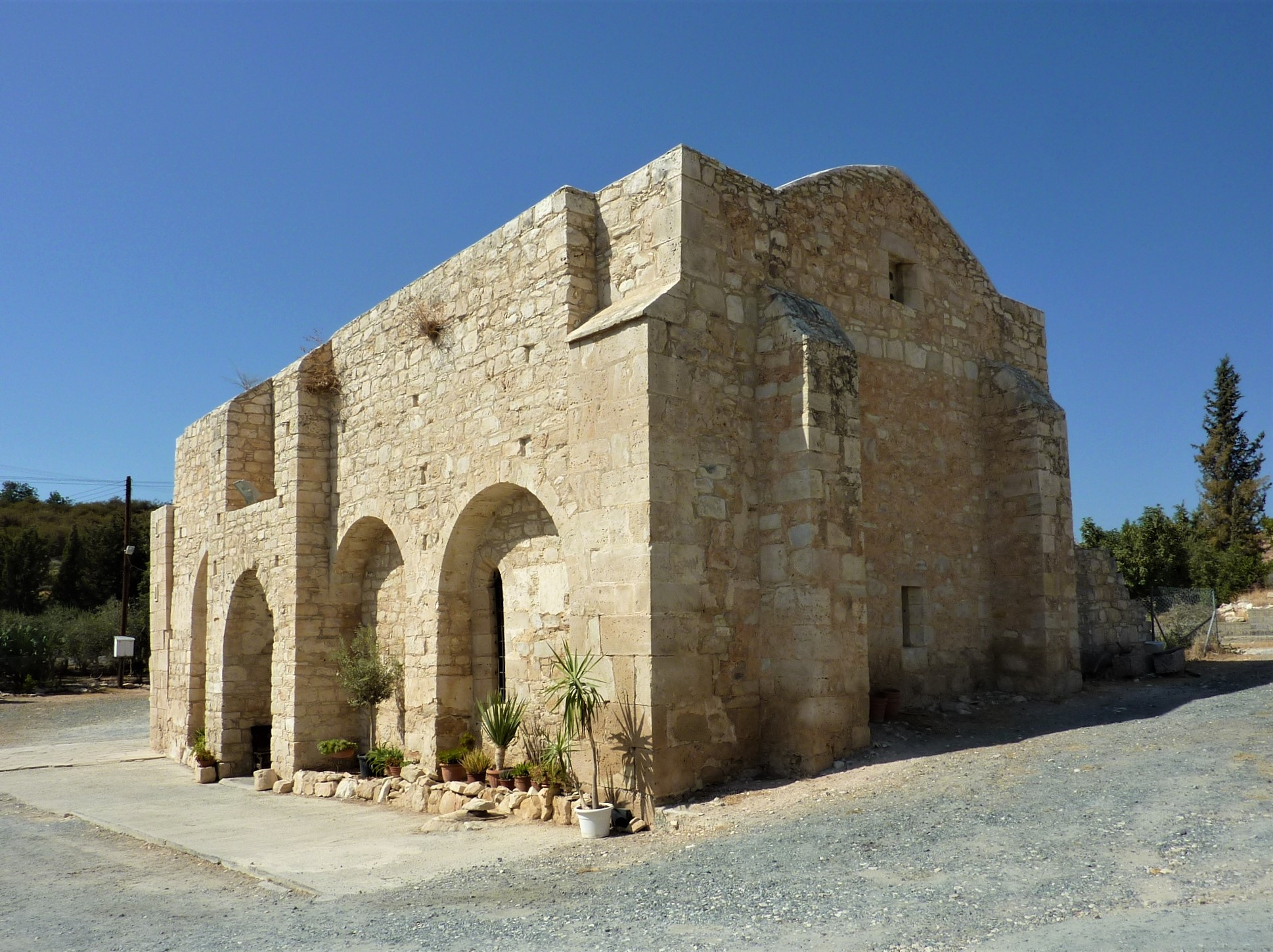 Panagia Karmiotissa, Limassol